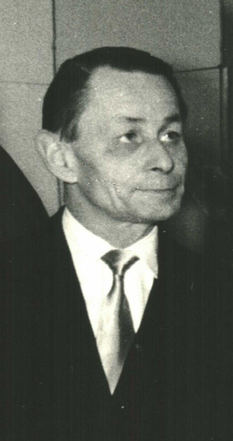 Armand Vetulani portrait photograph of 1960 or later